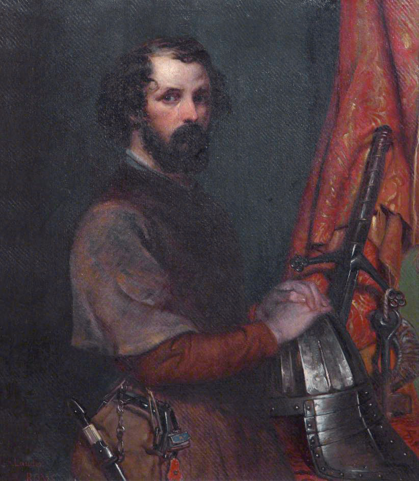 Self portrait in 17th century costume oil on canvas 39.5 x 34 cm